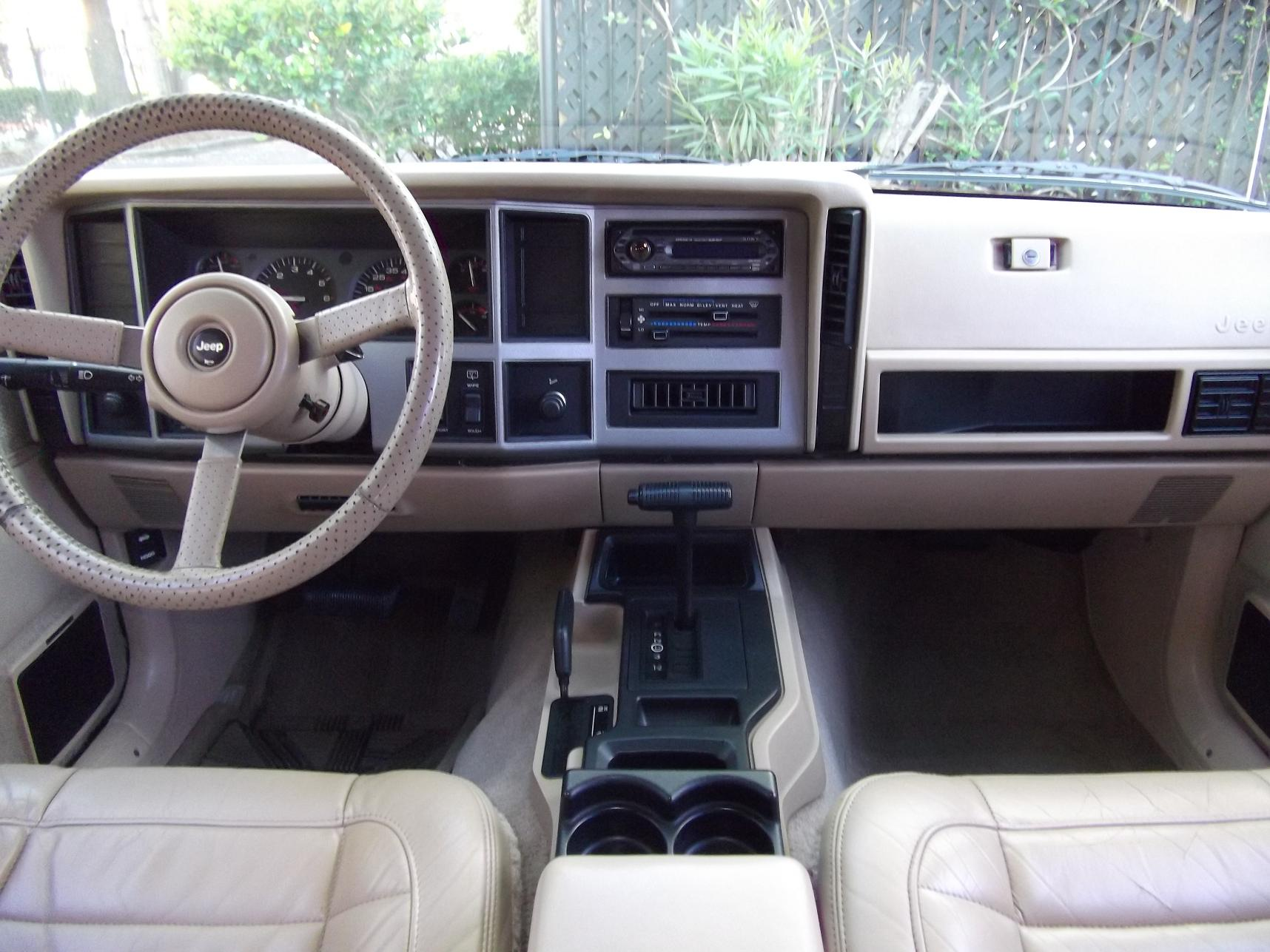 1992 Jeep Cherokee Laredo Interior